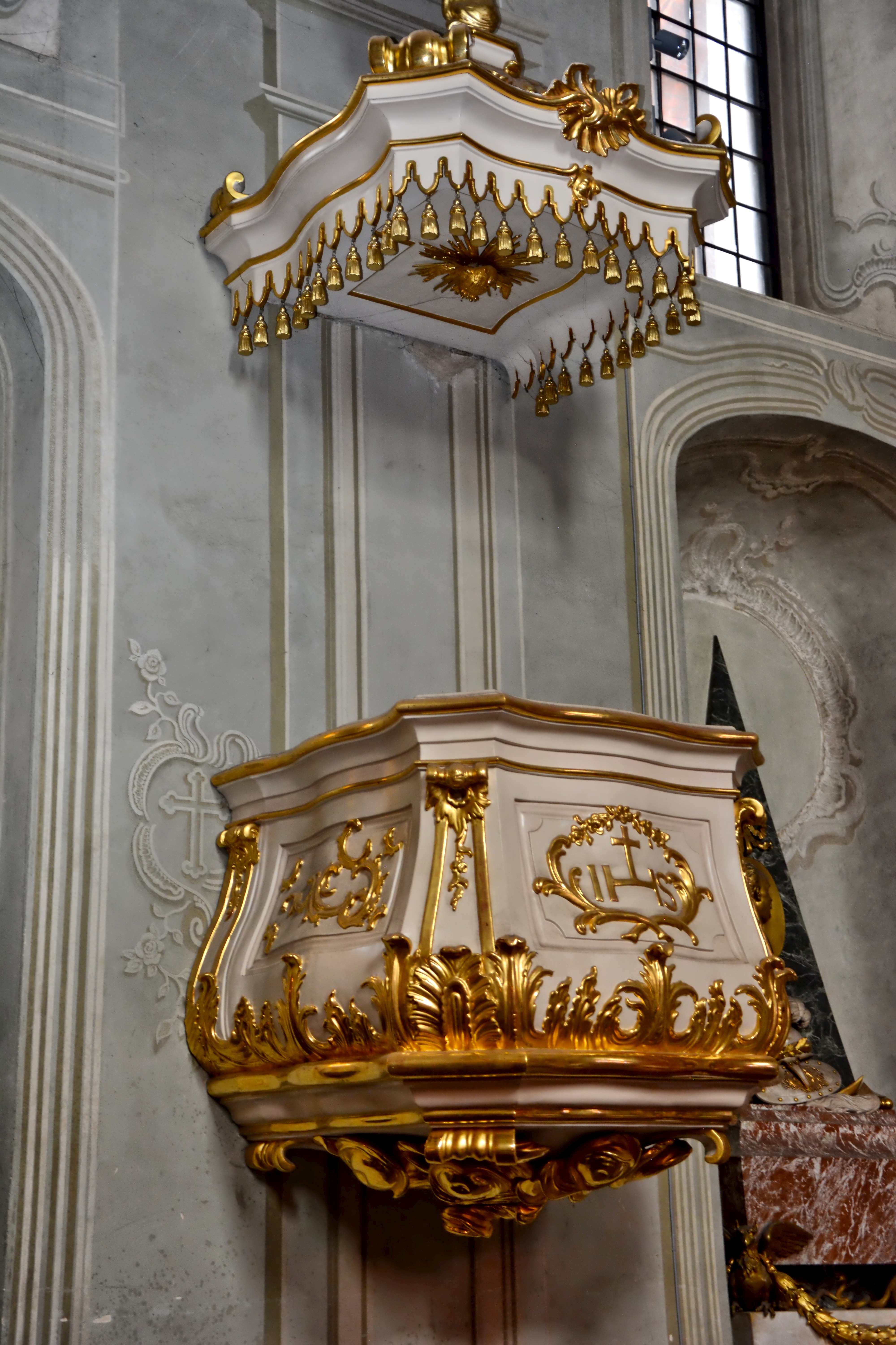 Białystok - catholic cathedral of the Assumption of the Blessed Virgin Mary (the pulpit in the "old church" from XVII century)